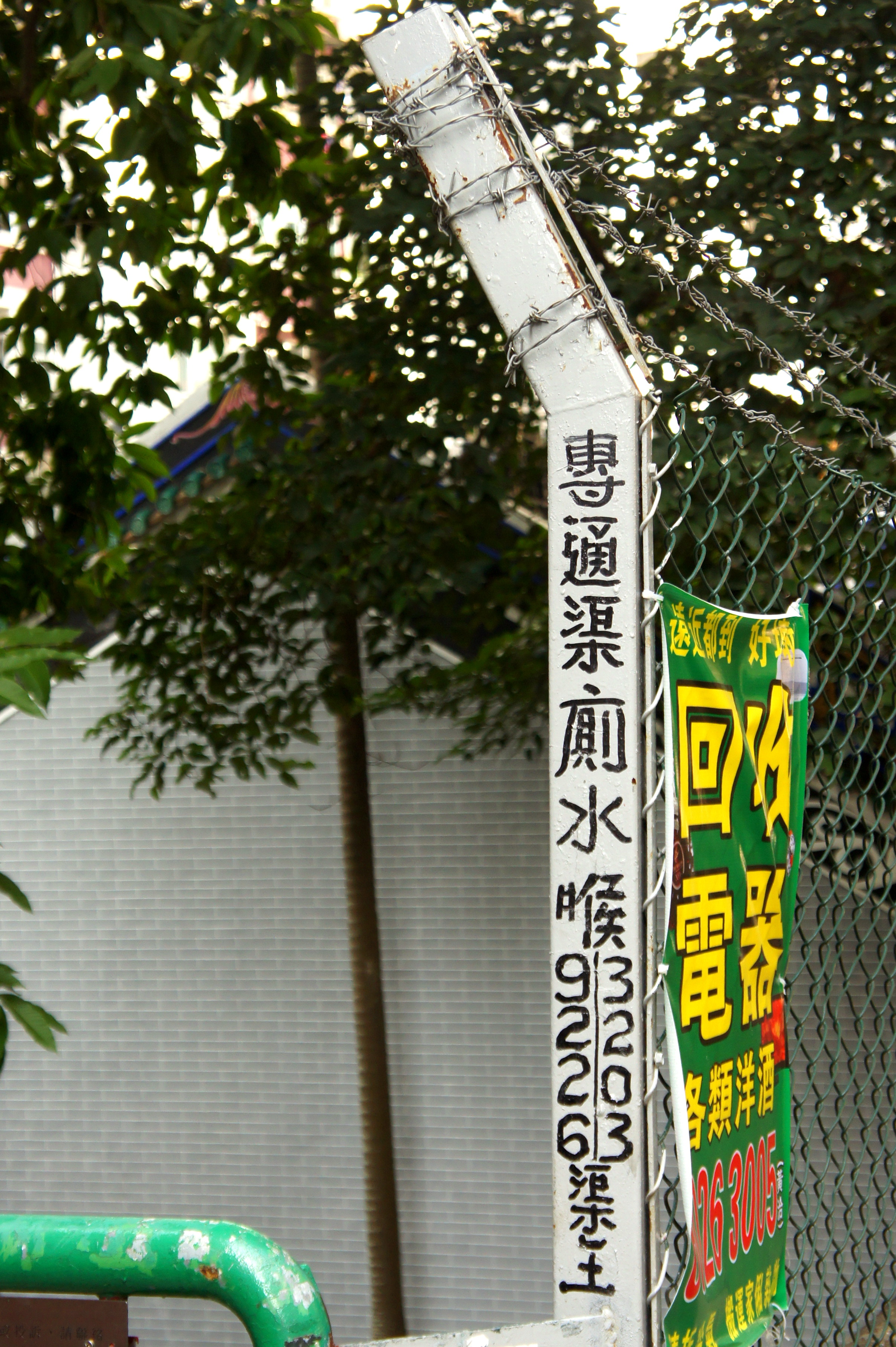 A hand-scrawled advertisement of the Plumber King on a fence near Lin Fa Temple, Causeway Bay, Hong Kong.